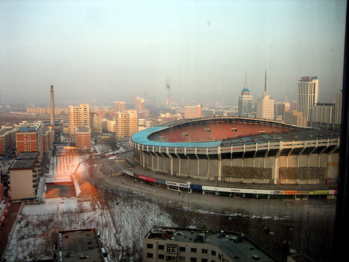 Picture taken by ChopOMatic, March 2006.